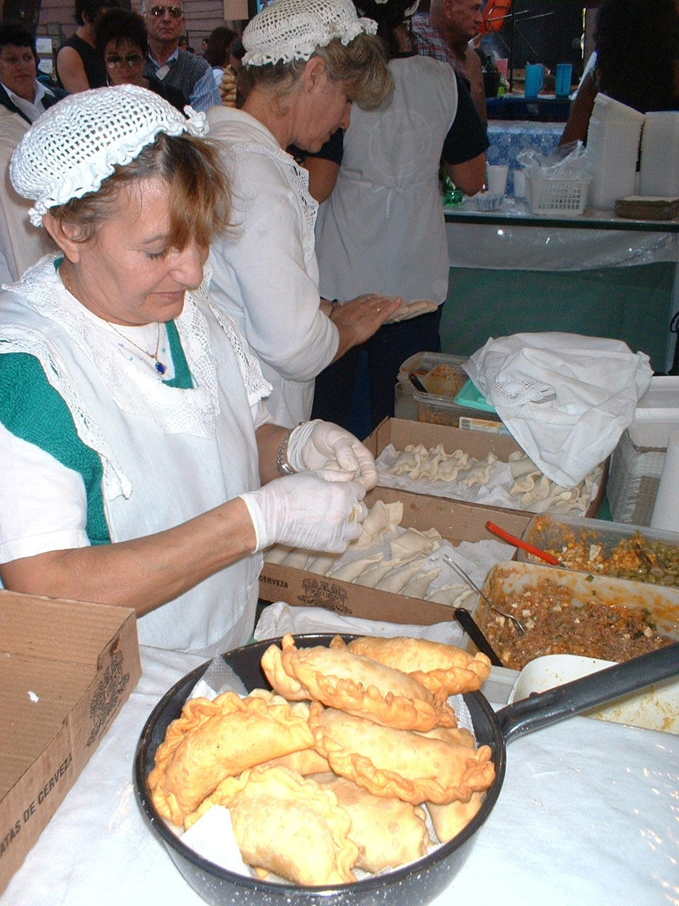 An Argentine woman making empanadas in Buenos Aires, 2003